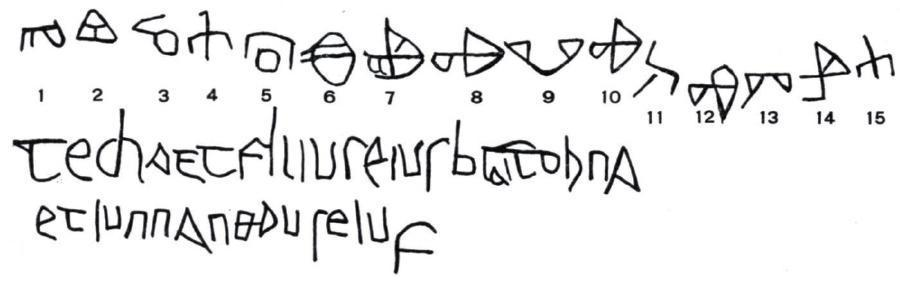 Glagolitic inscription of the Valun tablet, 11th century Croatian Glagolitic monument.